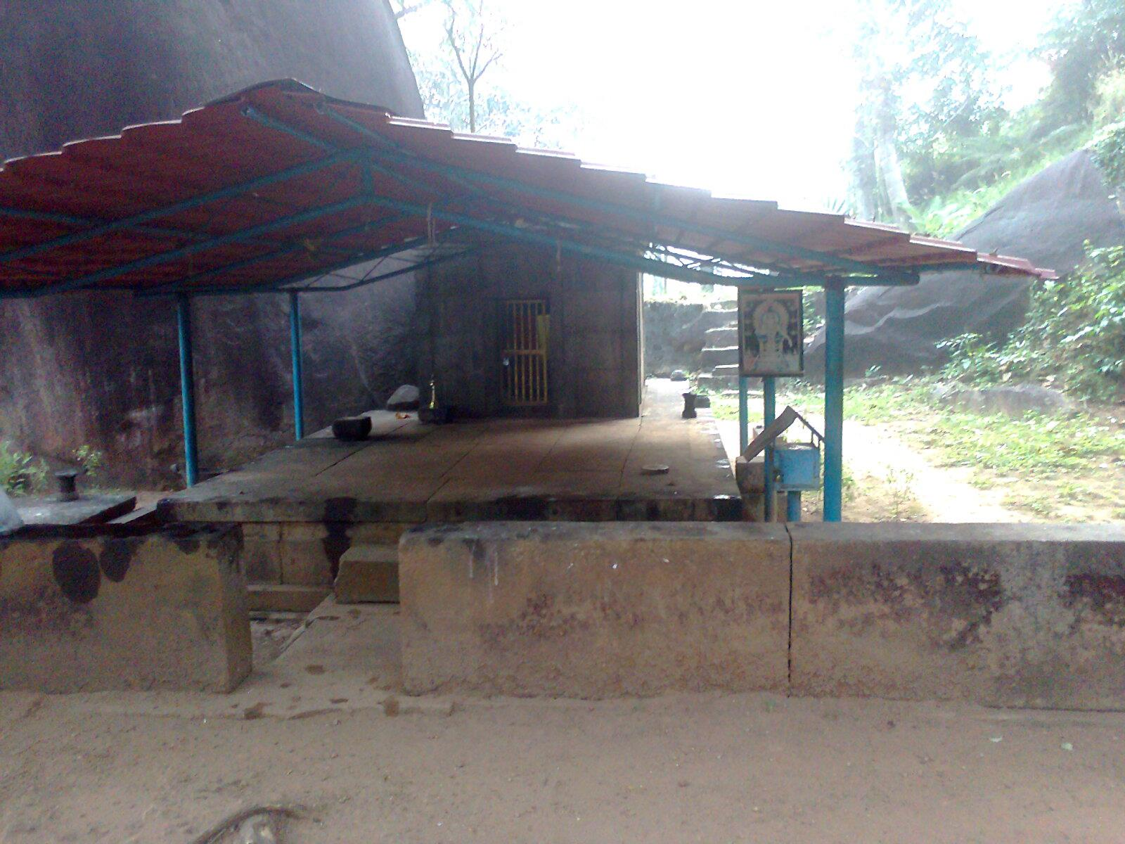 taken by me